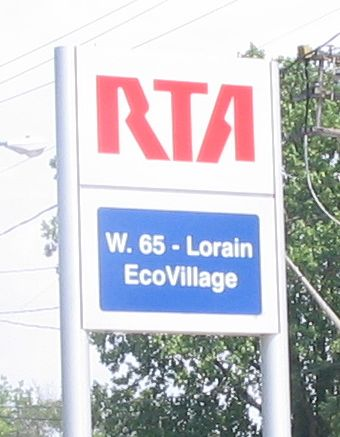 Sign at the entrance to West 65th Station on the Red Line of Cleveland RTA Rapid Transit